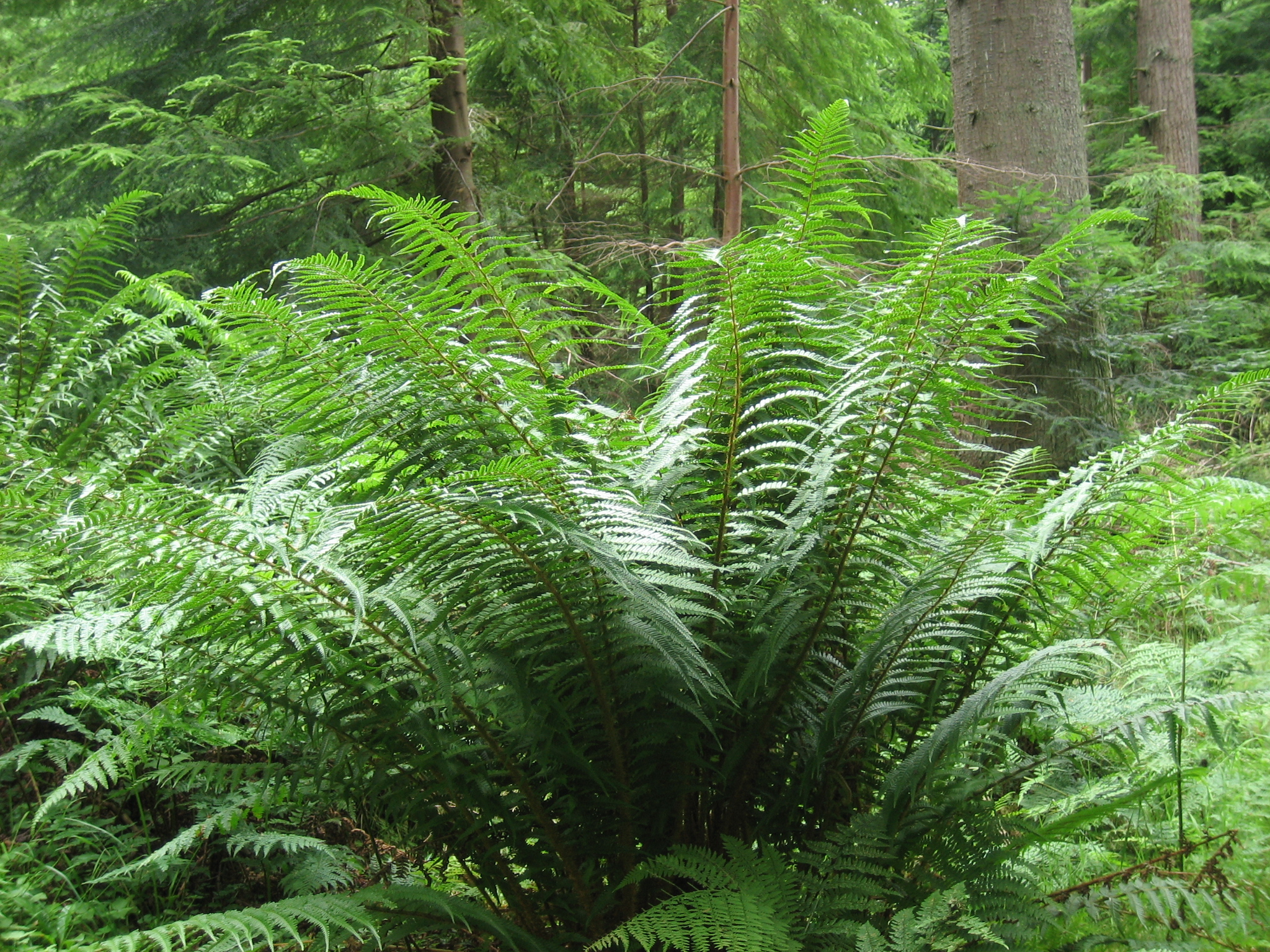 Dryopteris affinis, Kyloe Woods, Northumberland, UK